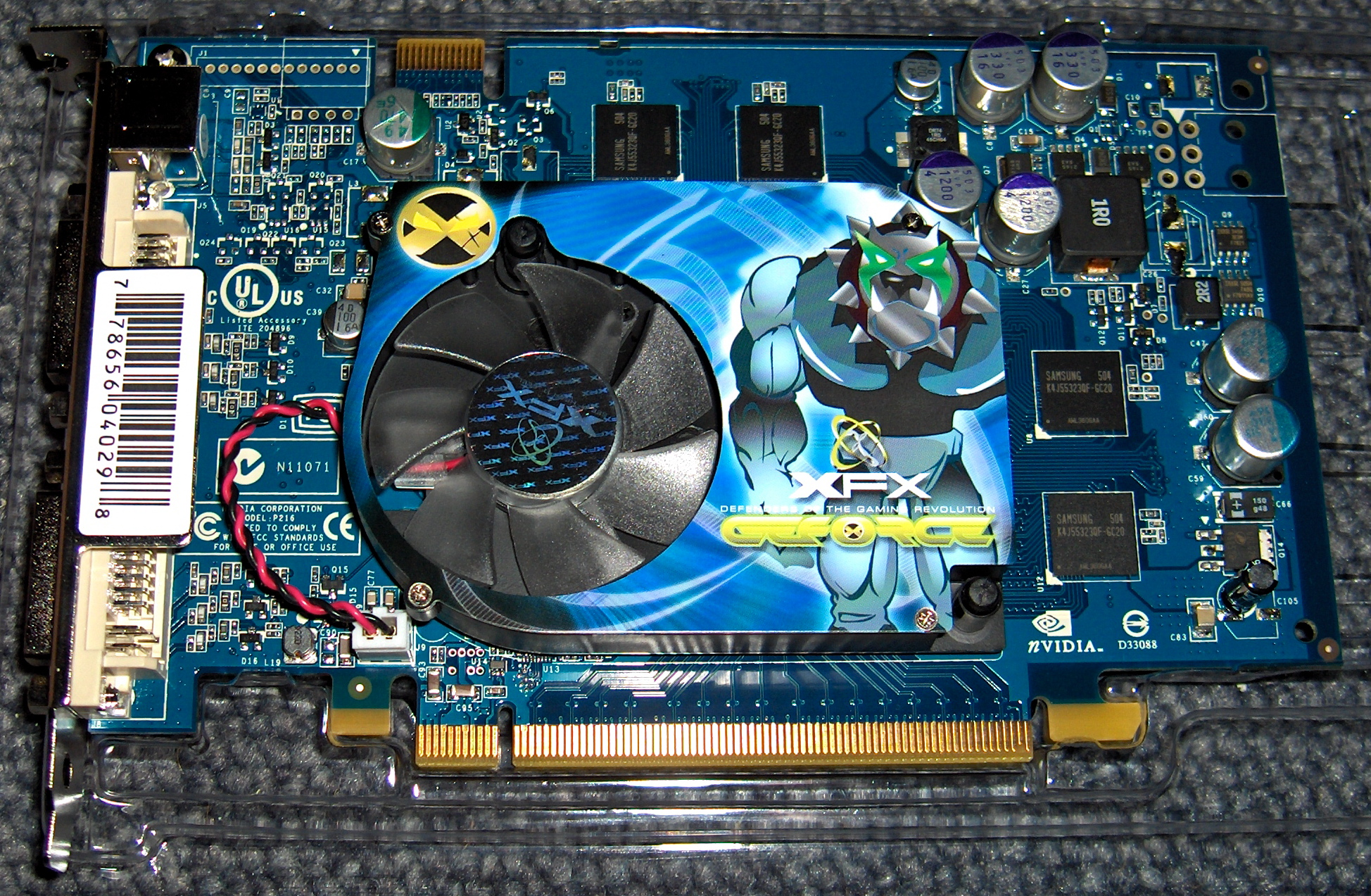 PCI Express video adapter card